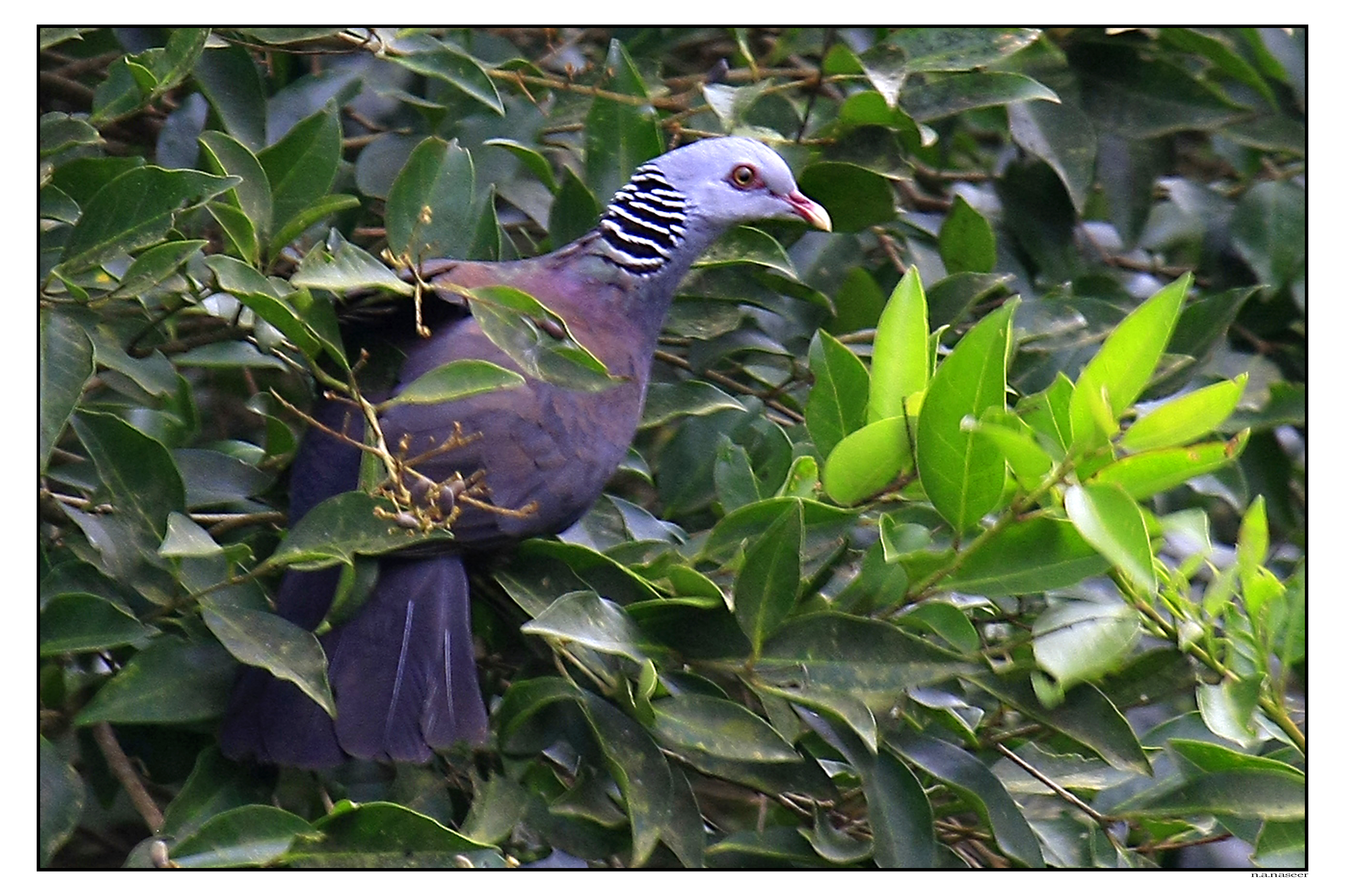 Nilgiri Wood Pigeon (Columba elphinstonii) .